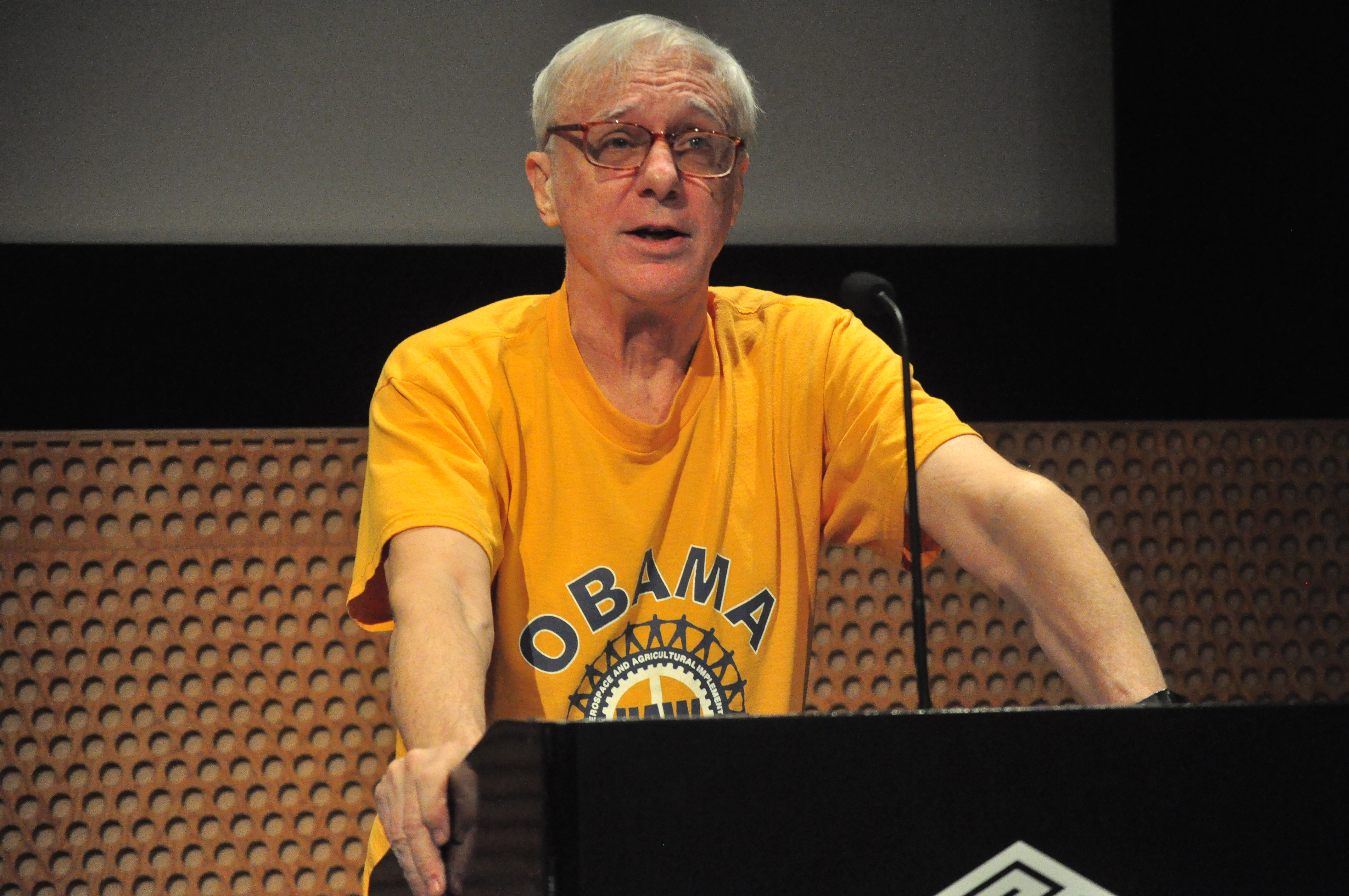 Robert Christgau presenting at the 2014 Pop Conference, EMP Museum, Seattle, Washington, U.S.